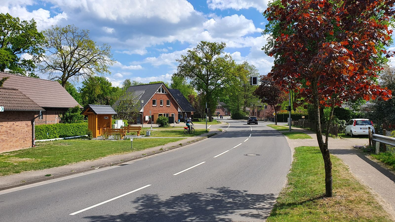 Dohren City